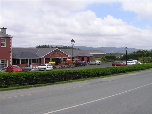 Milford Inn. It is located between Milford and Rathmelton The wing on the right has been re-built, see 1937061